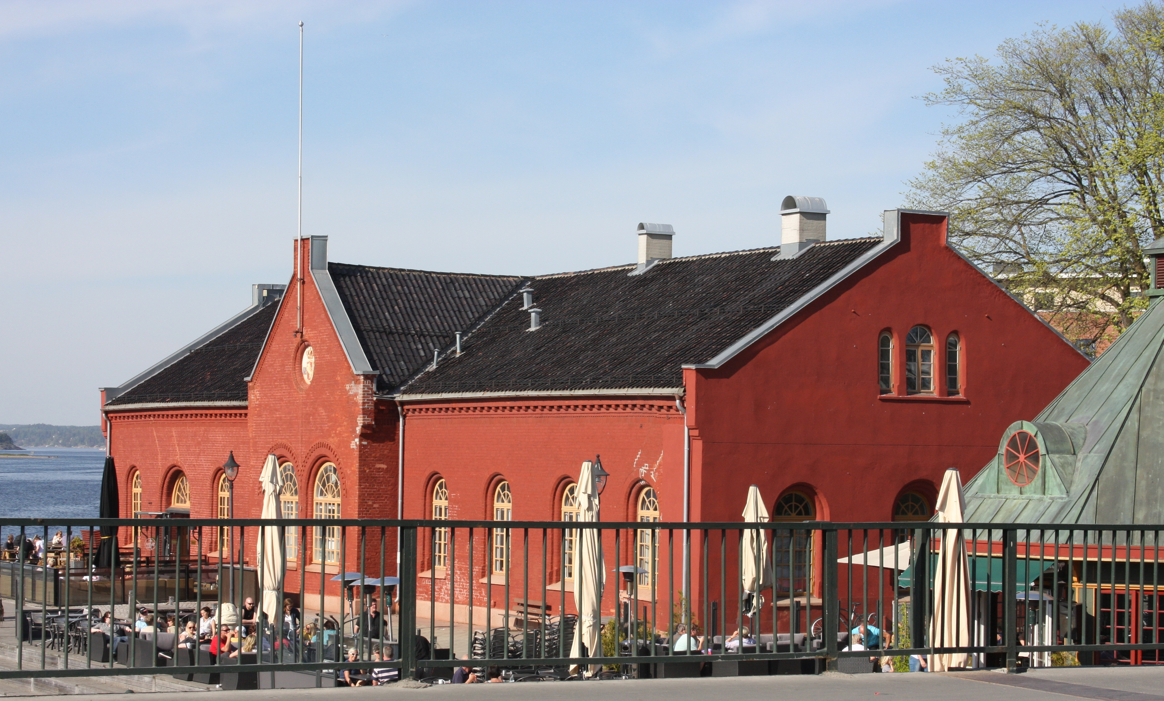 Cultural heritage building in the city of Moss, Norway